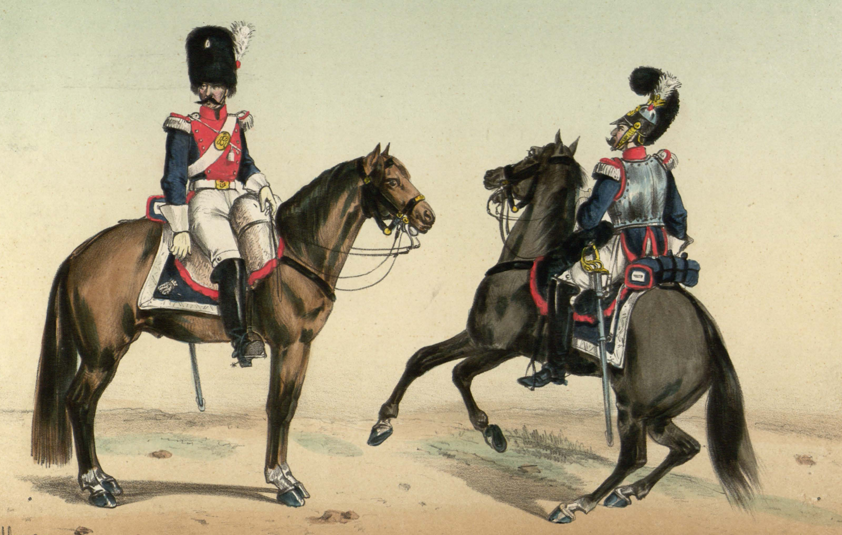 Granadero y coracero de la Guardia Real de Fernando VII en 1824